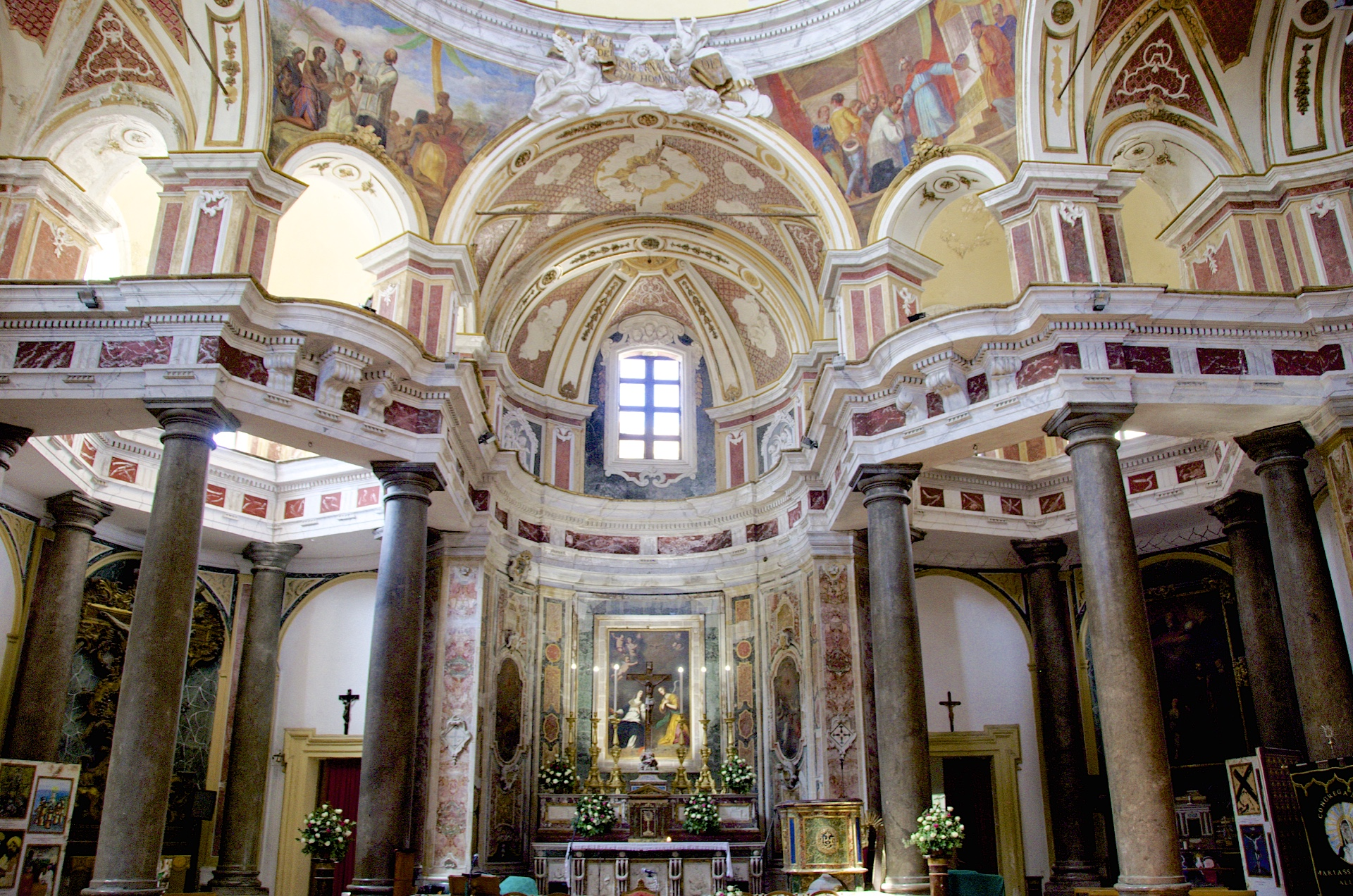 Interior.